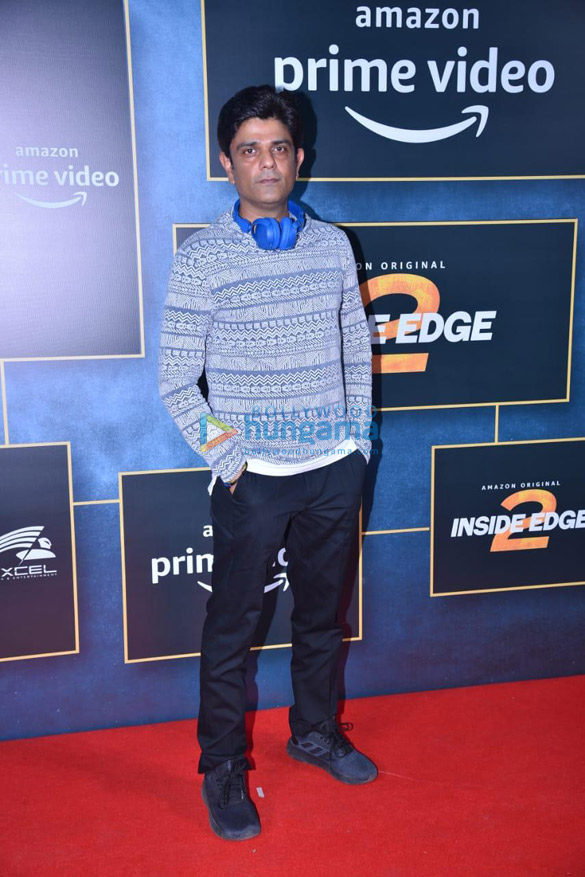 Amit Sial attend the special screening of web series Inside Edge Season 2